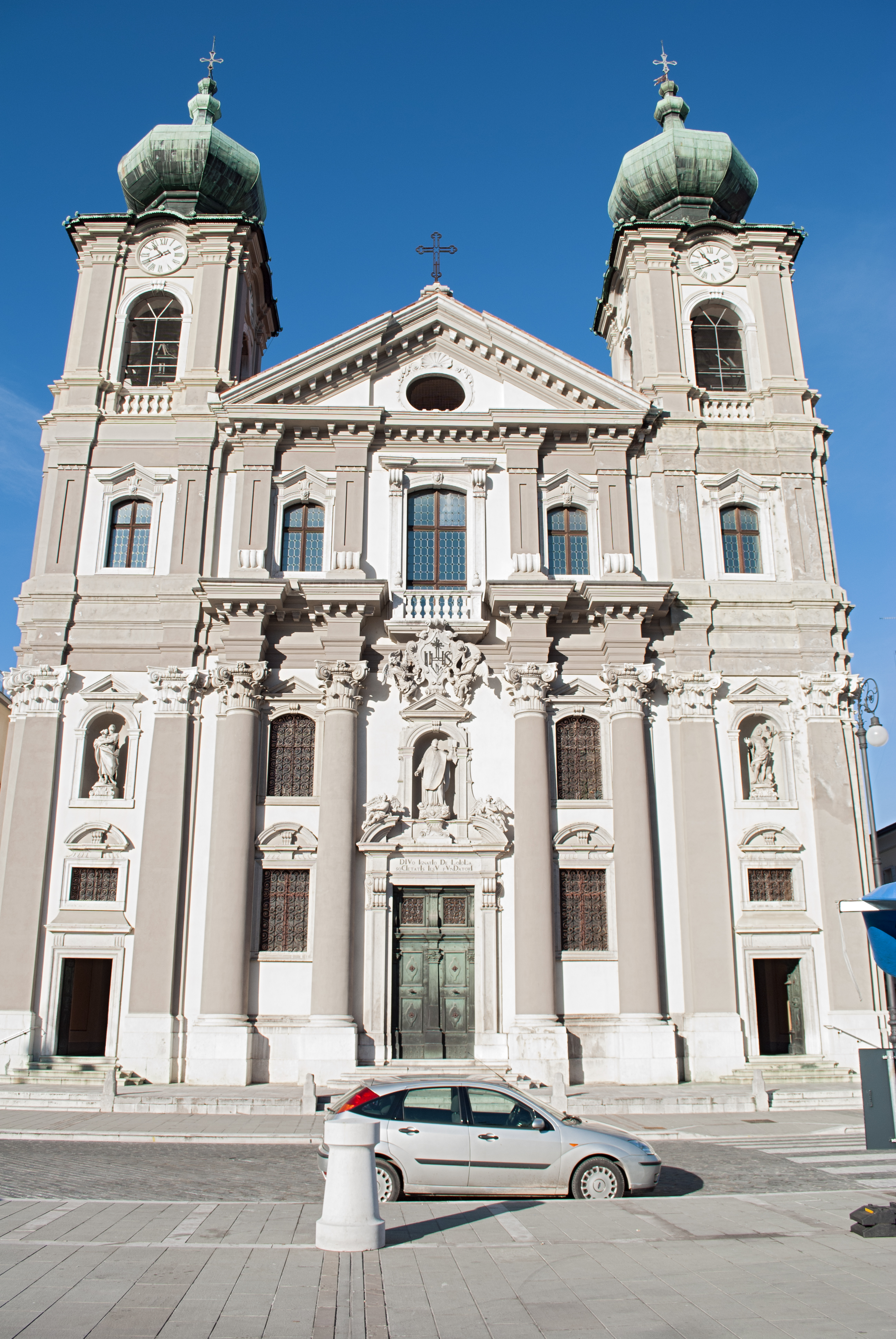 Church of Sant Ignatius in Gorizia, Italy; view of the facade.